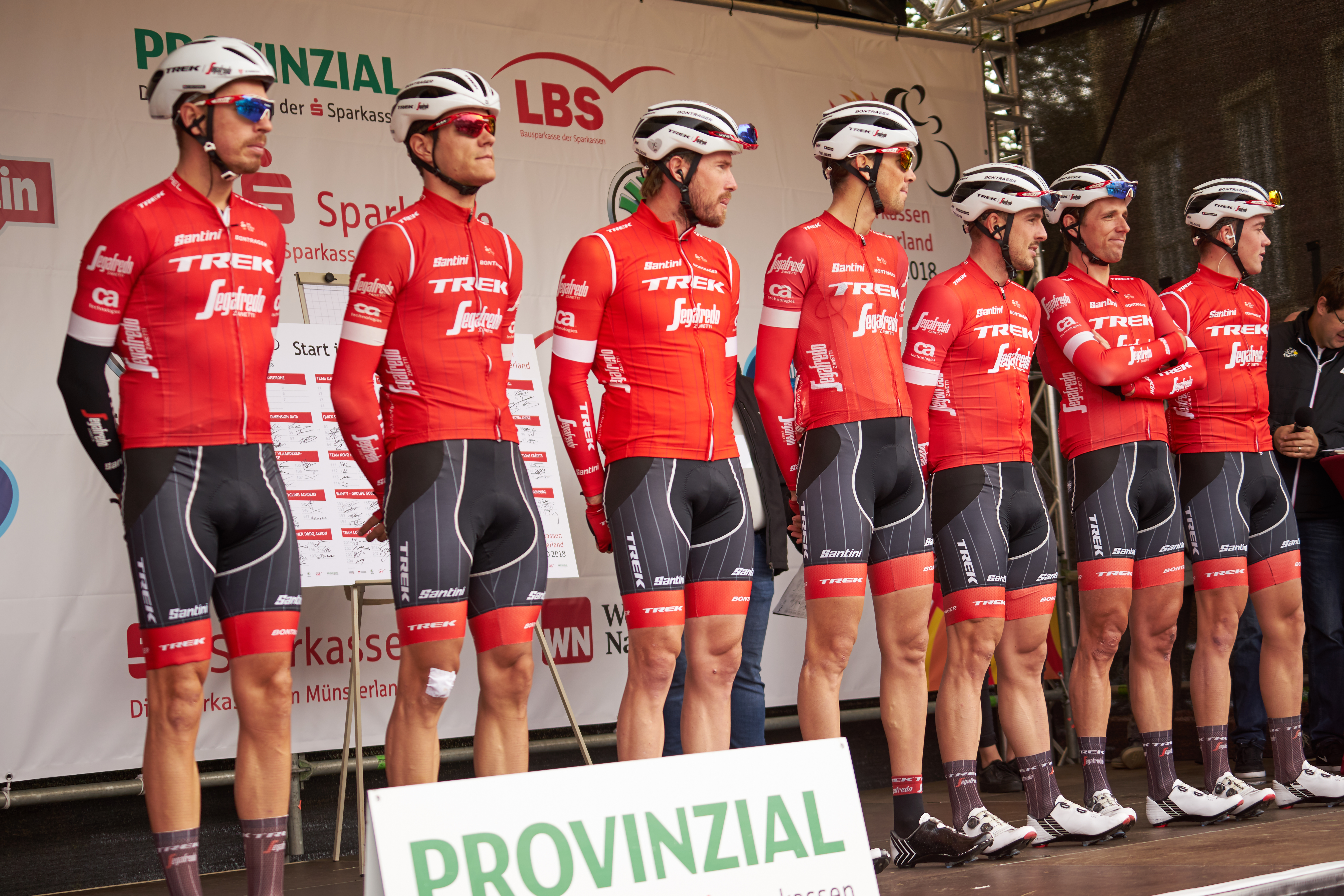 Münsterland Giro 2018, Team Trek-Segafredo in Coesfeld (start location).